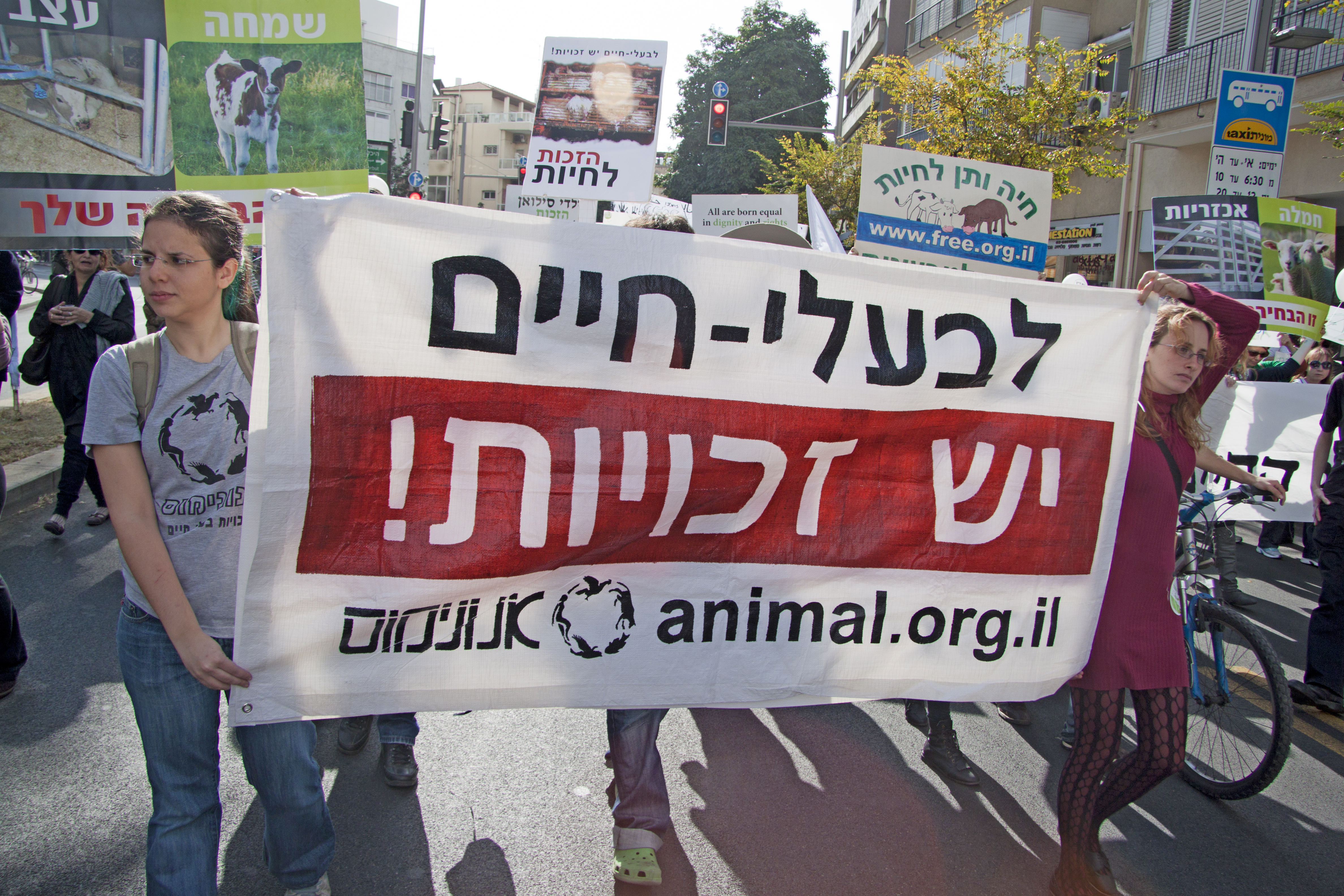 Anonymous Animal Rights in Israel's Human Rights March 2011